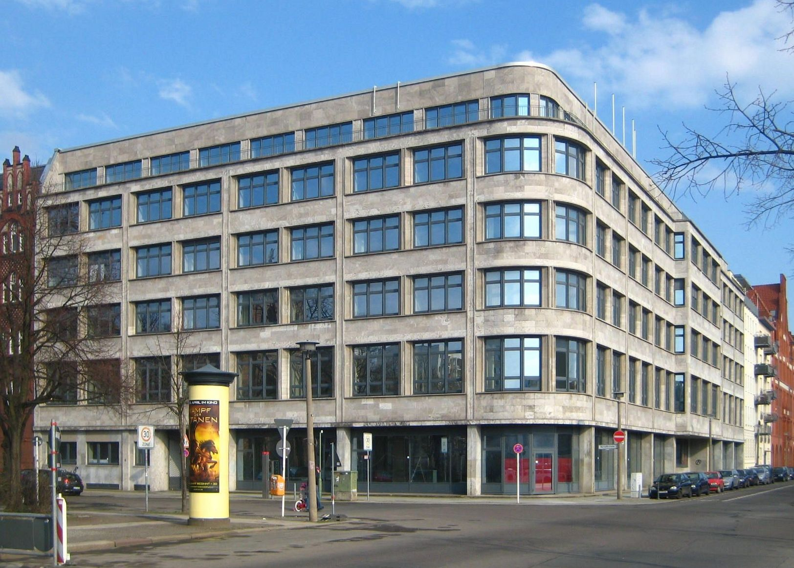 The former office building of the German Traffic Union (the union of tranport workers) on Engeldamm, corner of Michaelkirchplatz in Berlin-Mitte, built 1927 to 1932 by architect Max Taut who used an earlier design by his brother Bruno Taut. The six-story skeleton structure of reinforced concrete was one of several union buildings in Berlin Max Taut constructed in the modern architectural style. After the Nazis expropriated the General Federation of German Trade Unions in 1933, the building was used by the German Labor Front (Deutsche Arbeitsfront) for the Gau Office of its "Kraft durch Freude" ("Strength through Joy") programme. Heavily damaged in WWII, the building was reconstructed from 1949 to 1951 and the originally dark wall cladding were replaced with light limestone panels. The house was then used by the GDR Free German Trade Union (FDGB) and later by serveral of its affiliate unions. After German reunification, the transport union ÖTV had its seat here. The building is landmarked.